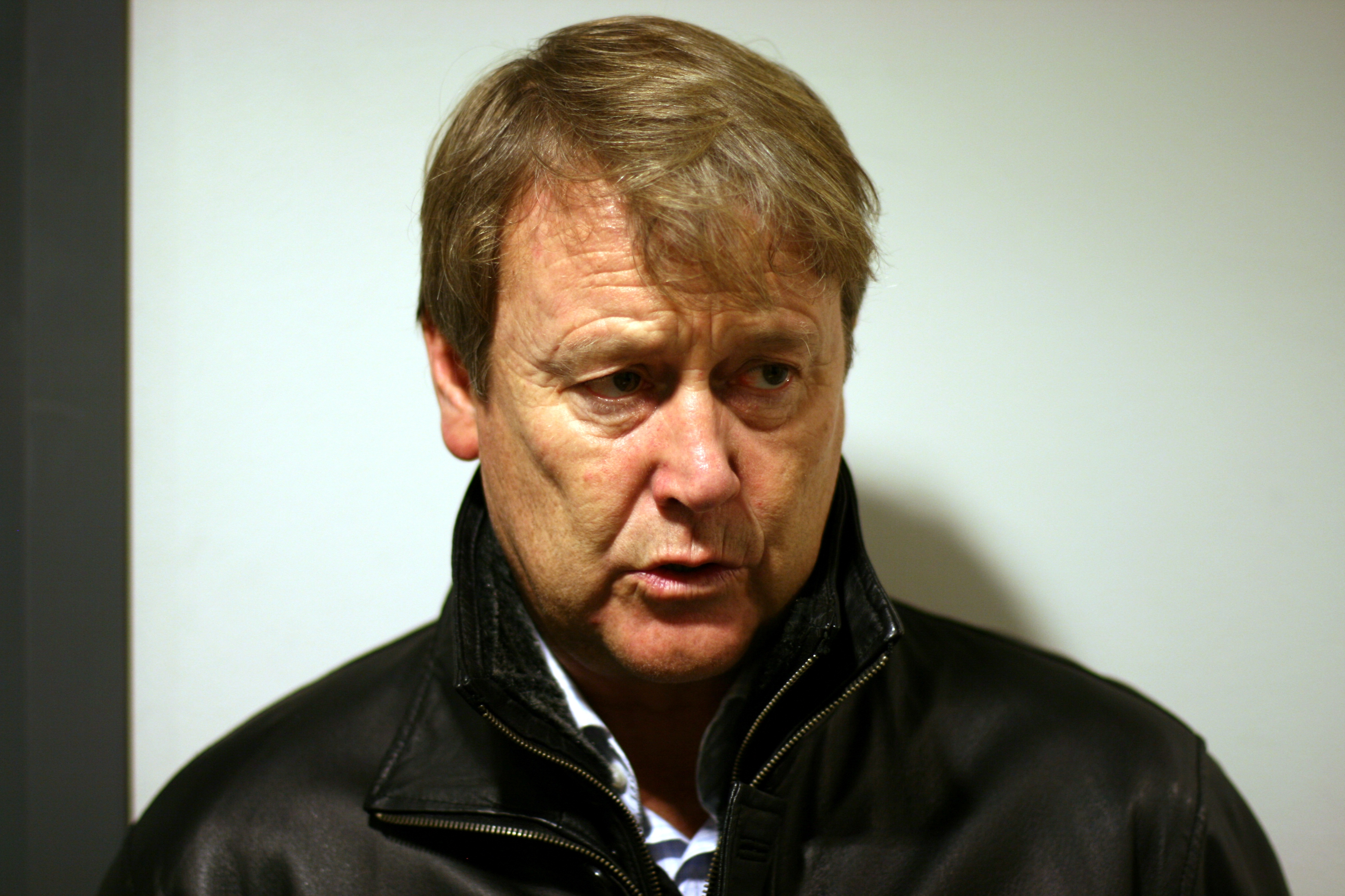 Norwegian footballer Åge Hareide.